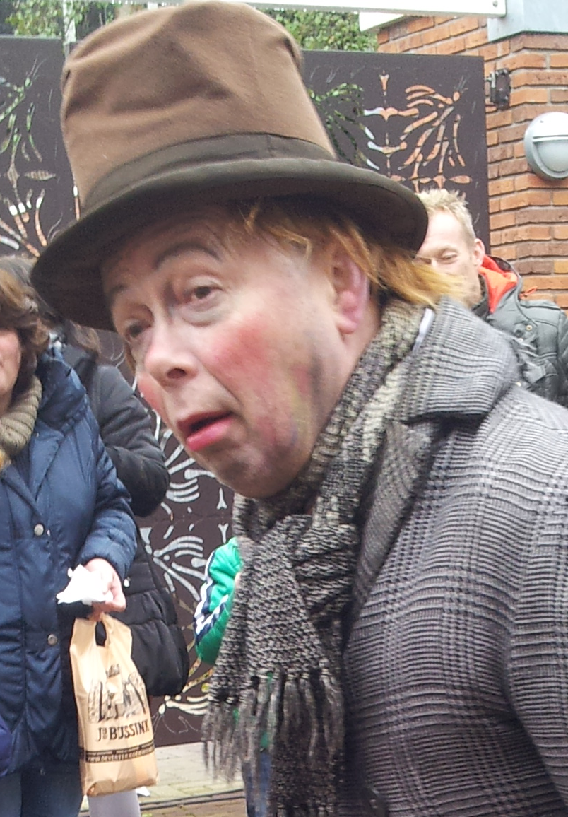 Uriah Heep, impersonated at the Dickens Festival 2013 in Deventer by Jos Debij, the Netherlands